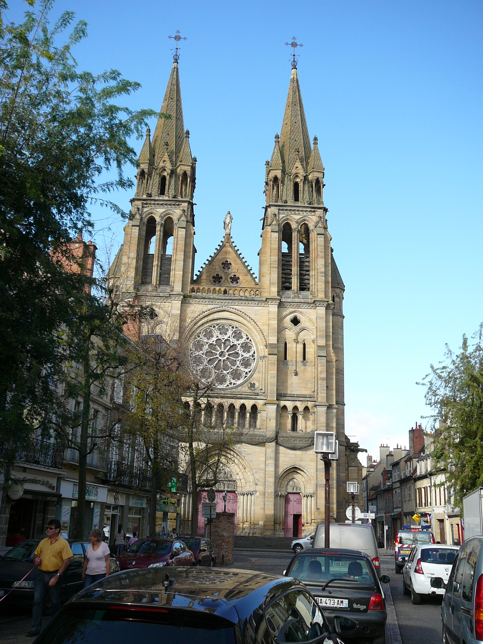 Sacre Coeur church taken from the place de l'Allier .